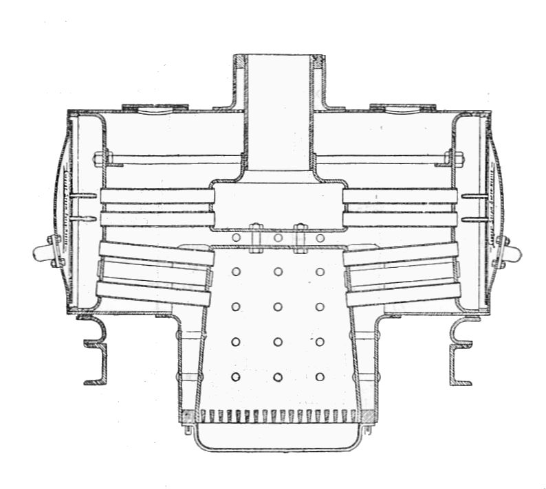 Fig. 39 Yorkshire Steam Wagon Boiler Crossways section of the transverse boiler of a Yorkshire Patent steam wagon. Reproduced from Norris Steam Wagons, London: Longmans, Green & Co.